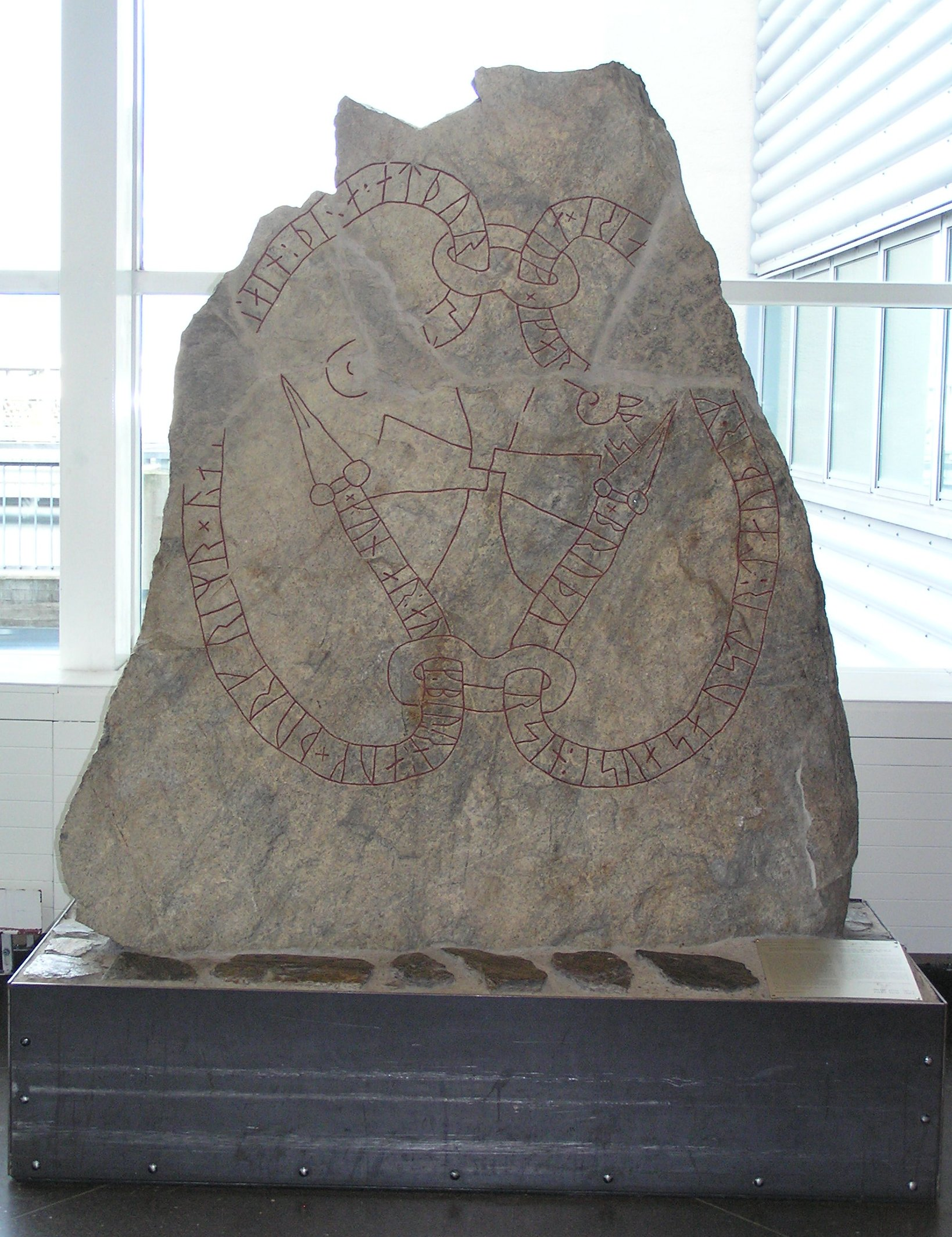 Rune stone exhibited in the Terminal 2 of the Arlanda Airport (Stockholm, Sweden) It says: Guenar and Björn and Thorgrim set up this stone in memory of Thorsten, their brother. He died in the east with Ingvar. And made (this bridge?).